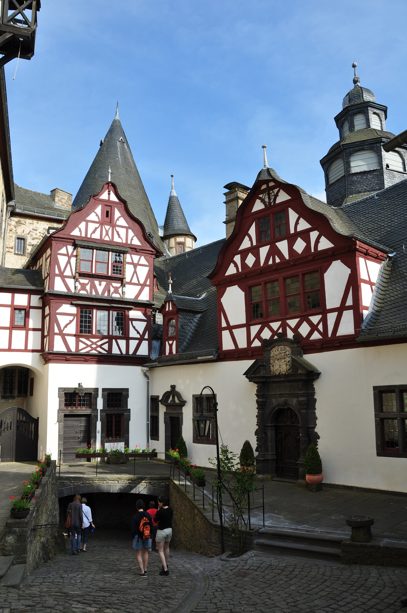 Courtyard of Bürresheim Castle (Sankt-Johann, near Mayen, Rhineland-Palatinate, Germany)